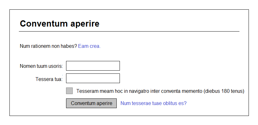 A picture to show how a login can look like. The language in this picture is Latin and is supposed to be used in Latin contexts. Created in Paint for Windows 7 Home Premium.